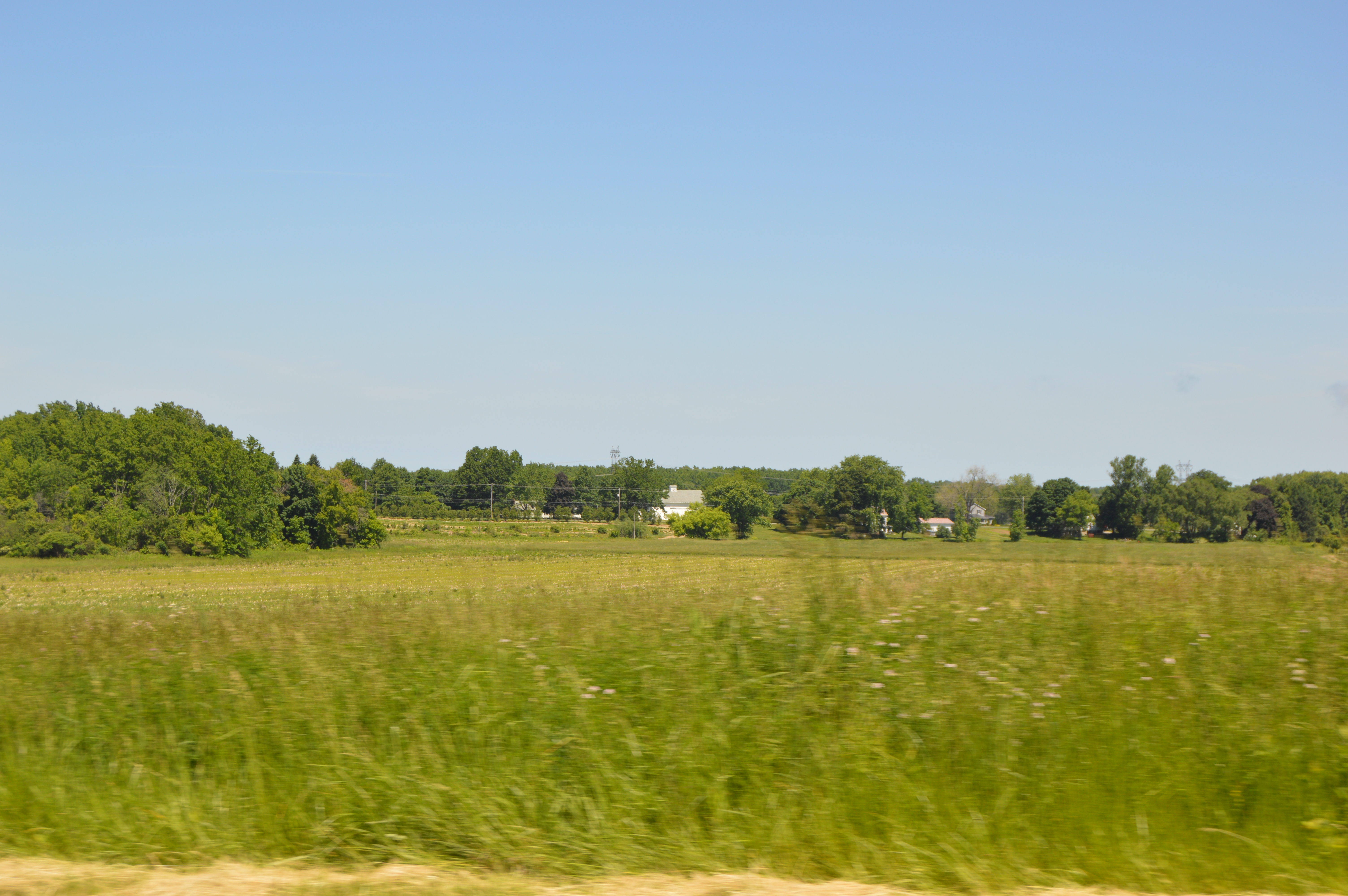 Open fields and distant buildings located between River Road and Ridge Road southwest of Perry in Perry Township, Logan County, Ohio, United States.